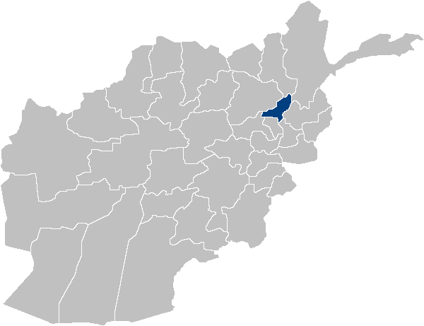 Location map for Panjshir Province in Afghanistan. Original map source: Image:Afghanistan_provinces_blank.png